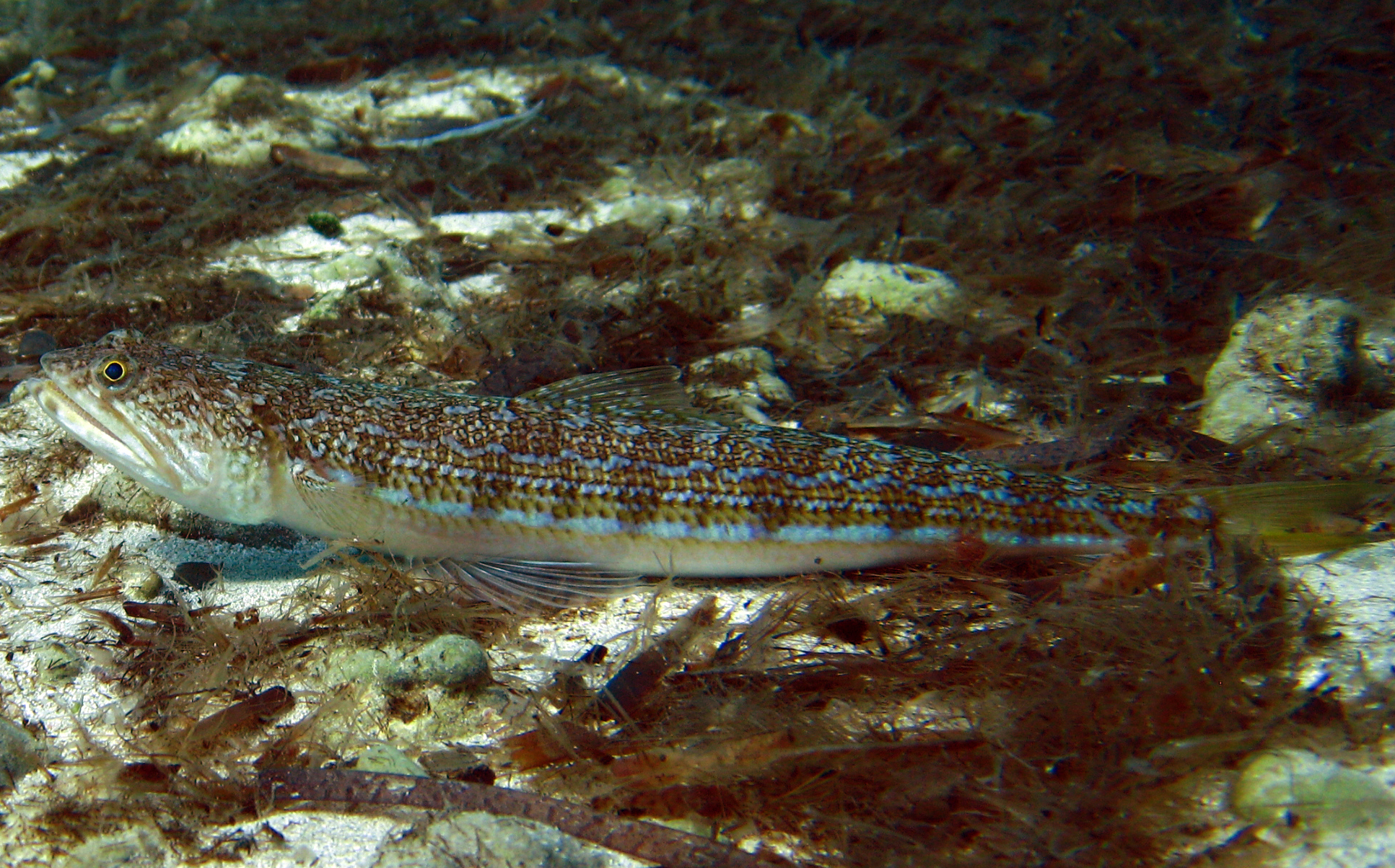 Synodus saurus photographed in Italian waters. Photo by Rossella Baldacconi.